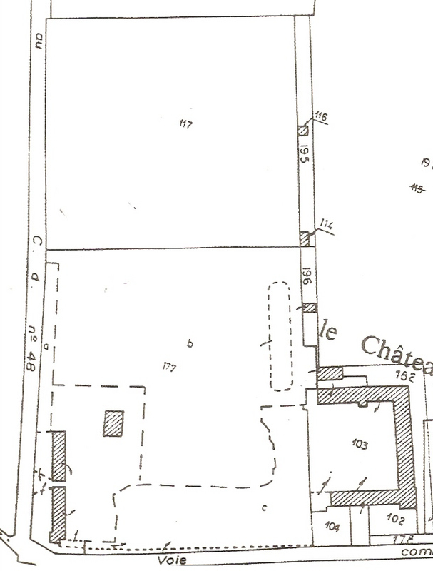 Photocopy of Napoleon Cadastre of Chateau de la Motte